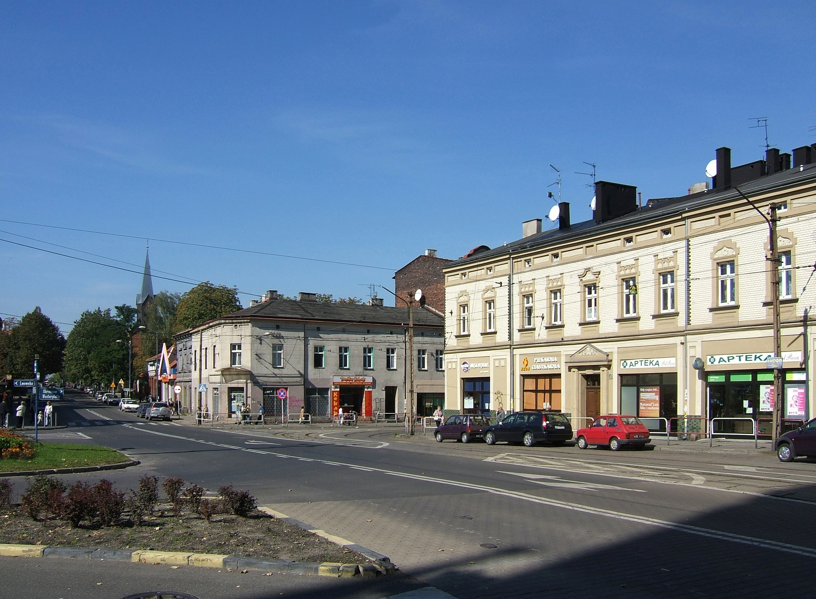 Street in Szopienice.